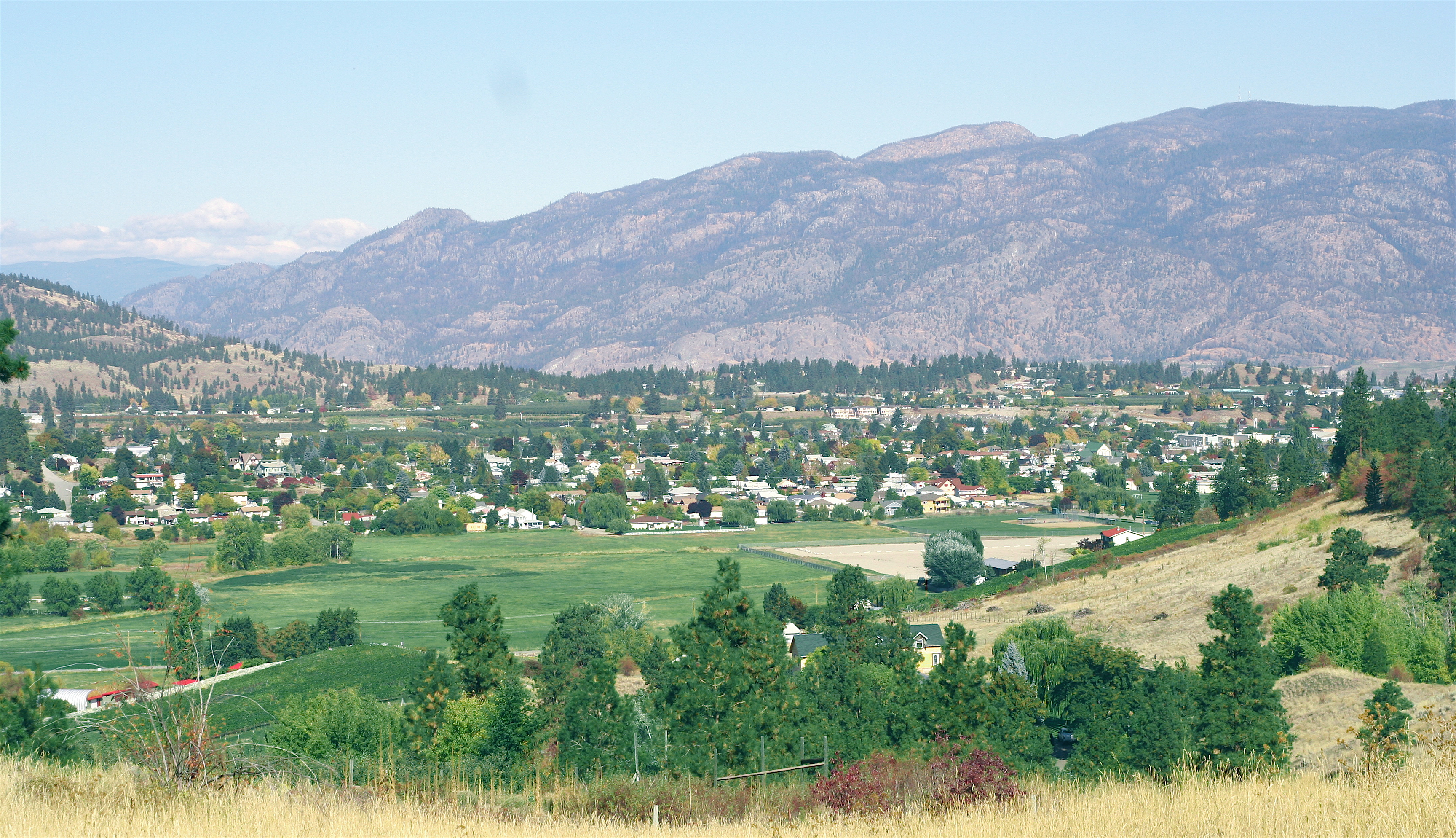 Photograph of Summerland, taken by Dale Wiens.